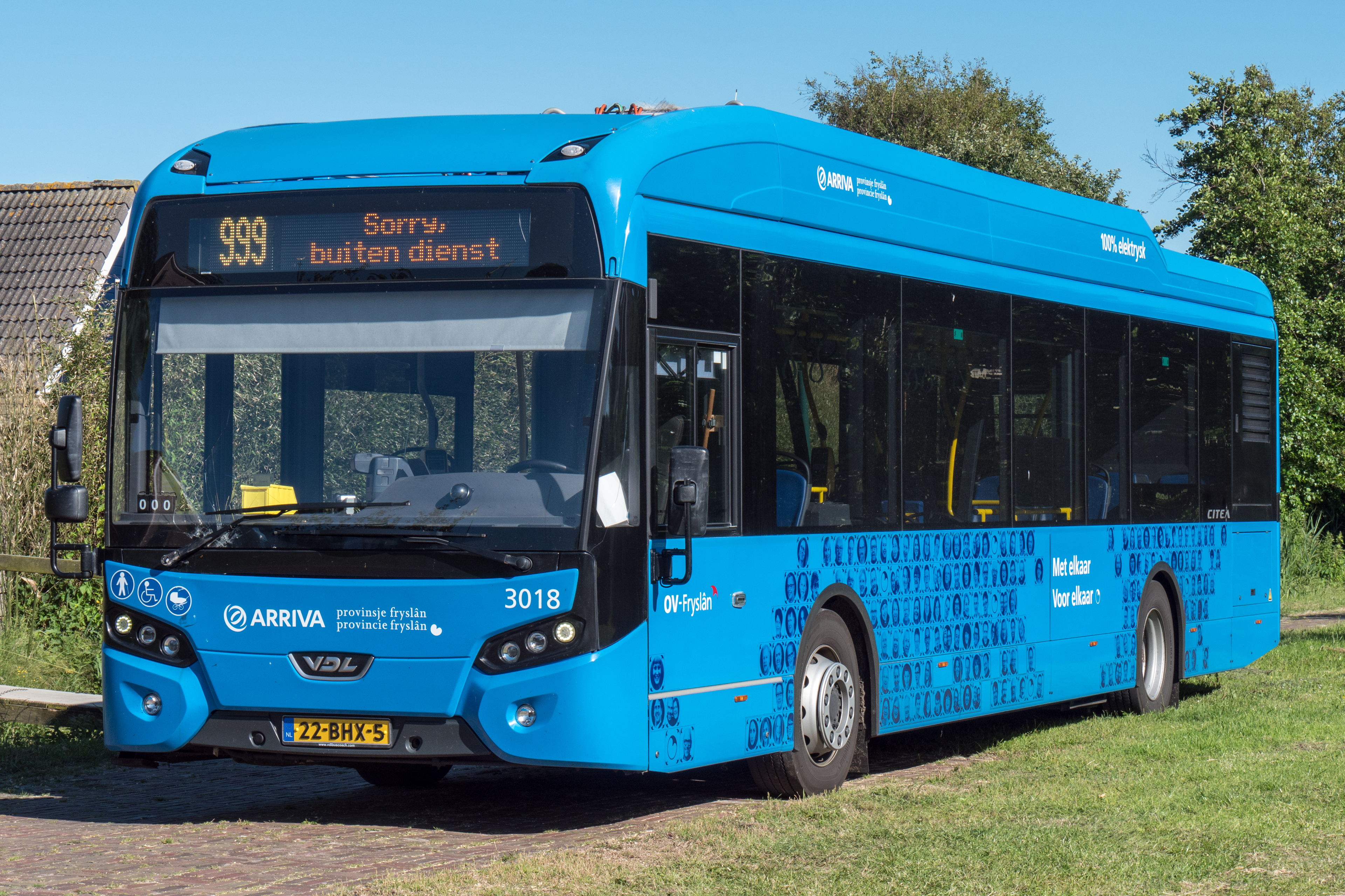 VDL Citea SLF-120 Electric in Nes (Ameland) operated by Arriva Fryslân